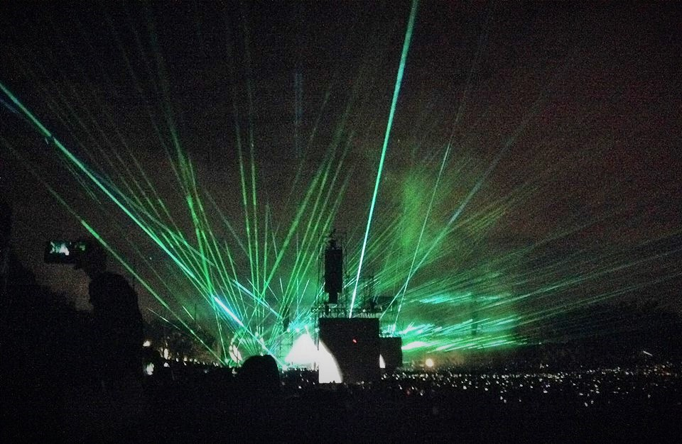 The stage of Shakira's El Dorado Tour. Parque Simón Bolivar - Bogotá, Colombia